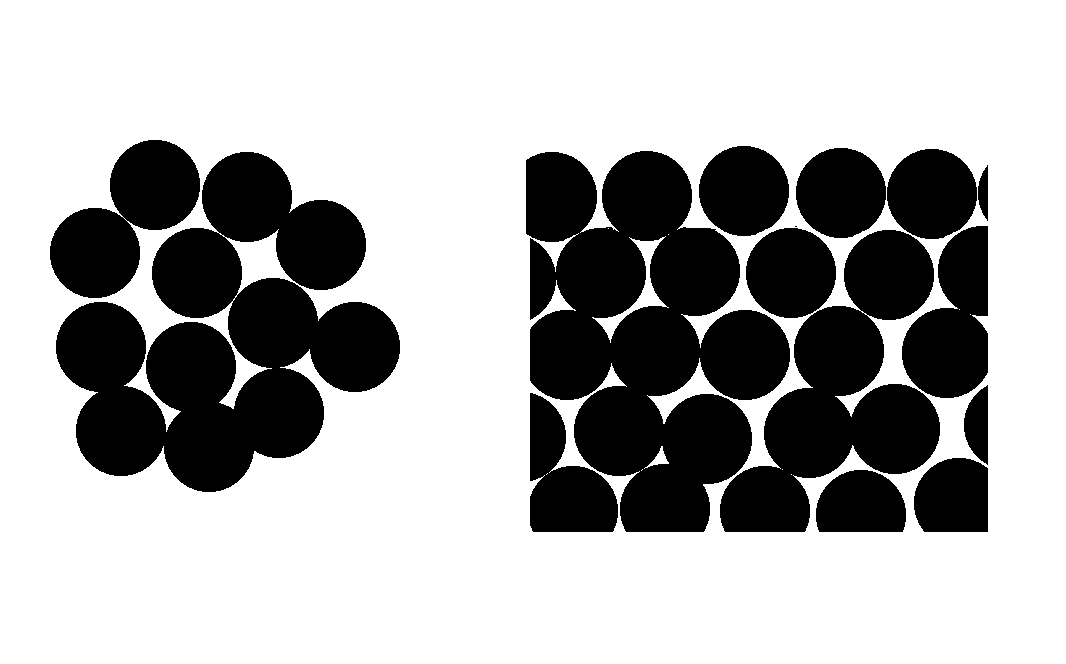 Diagram showing difference in molecular neighbors of surface molecules in a tiny droplet as contrasted with those on a flat liquid surface.